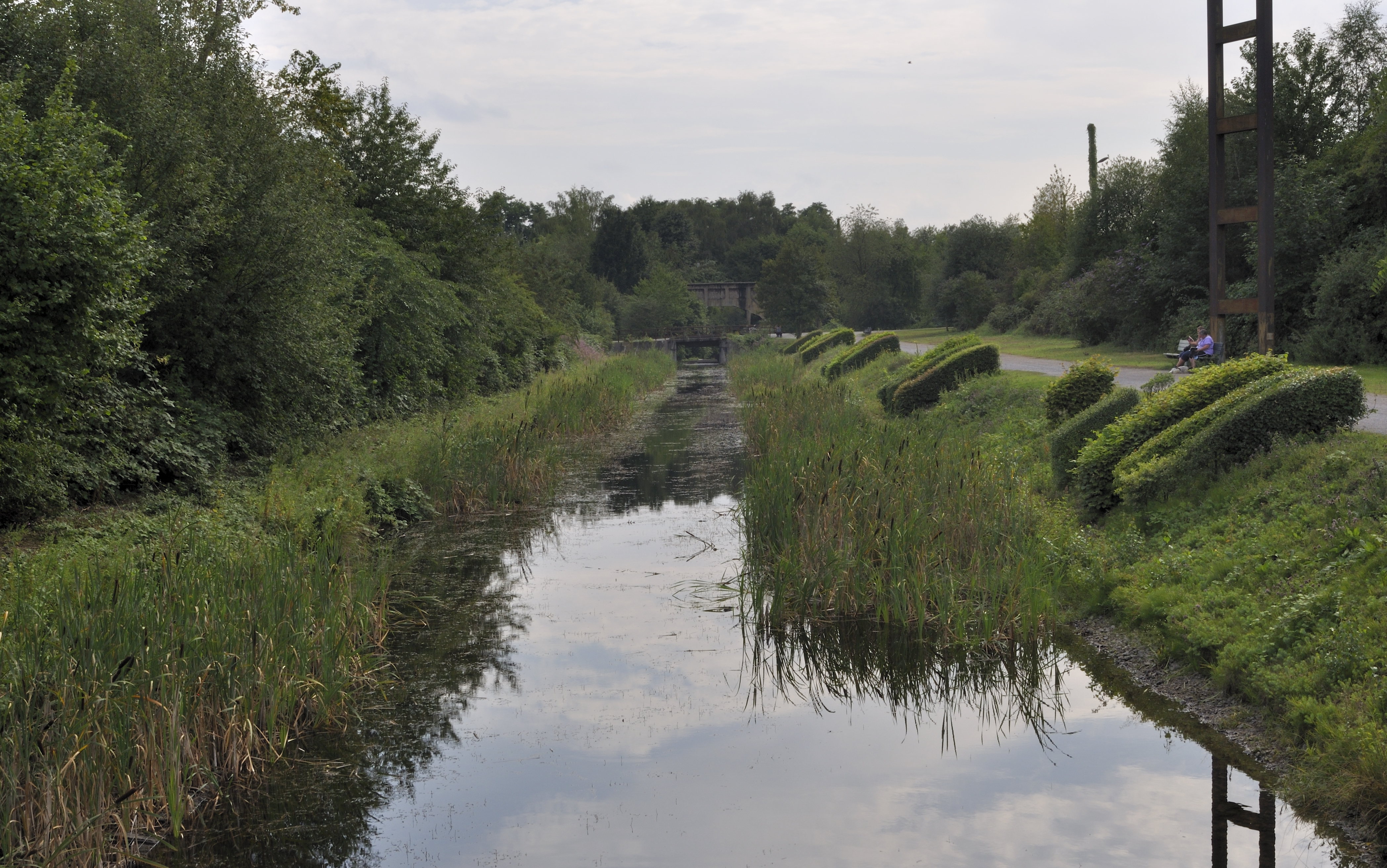 Picture taken in Duisburg while summer meetup.